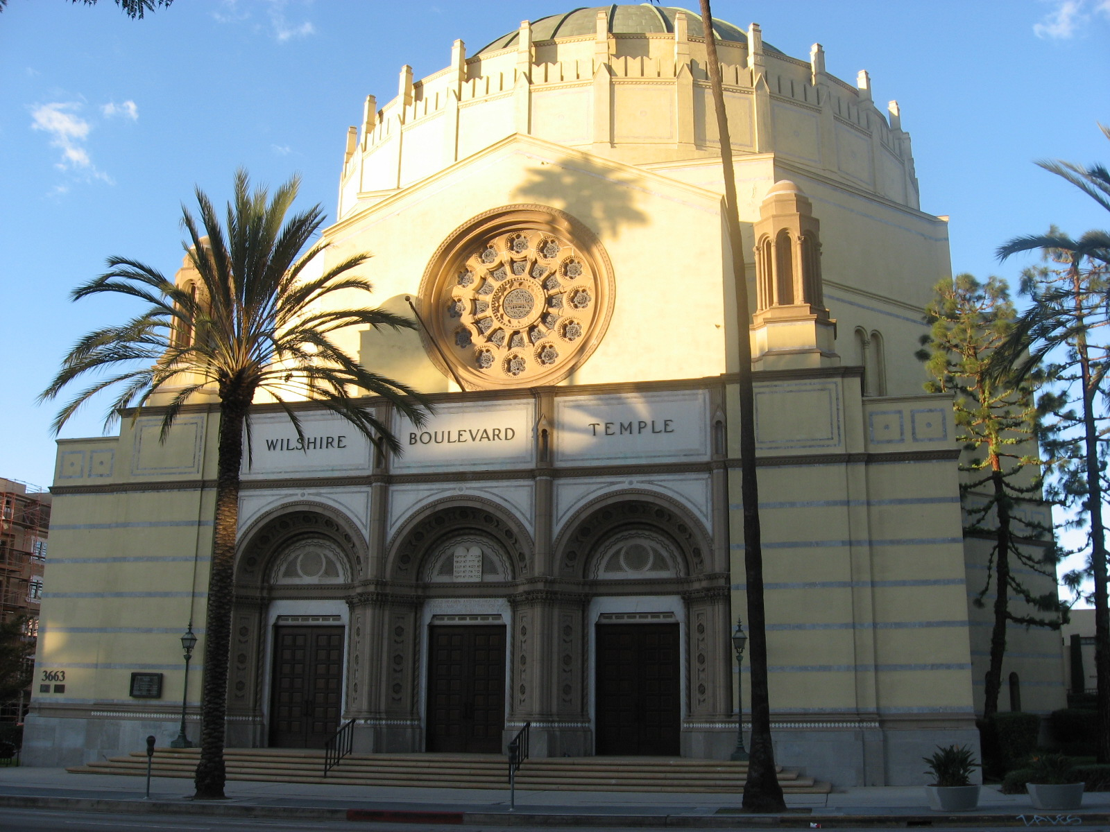 Wilshire Boulevard Temple (Reform), Los Angeles, California